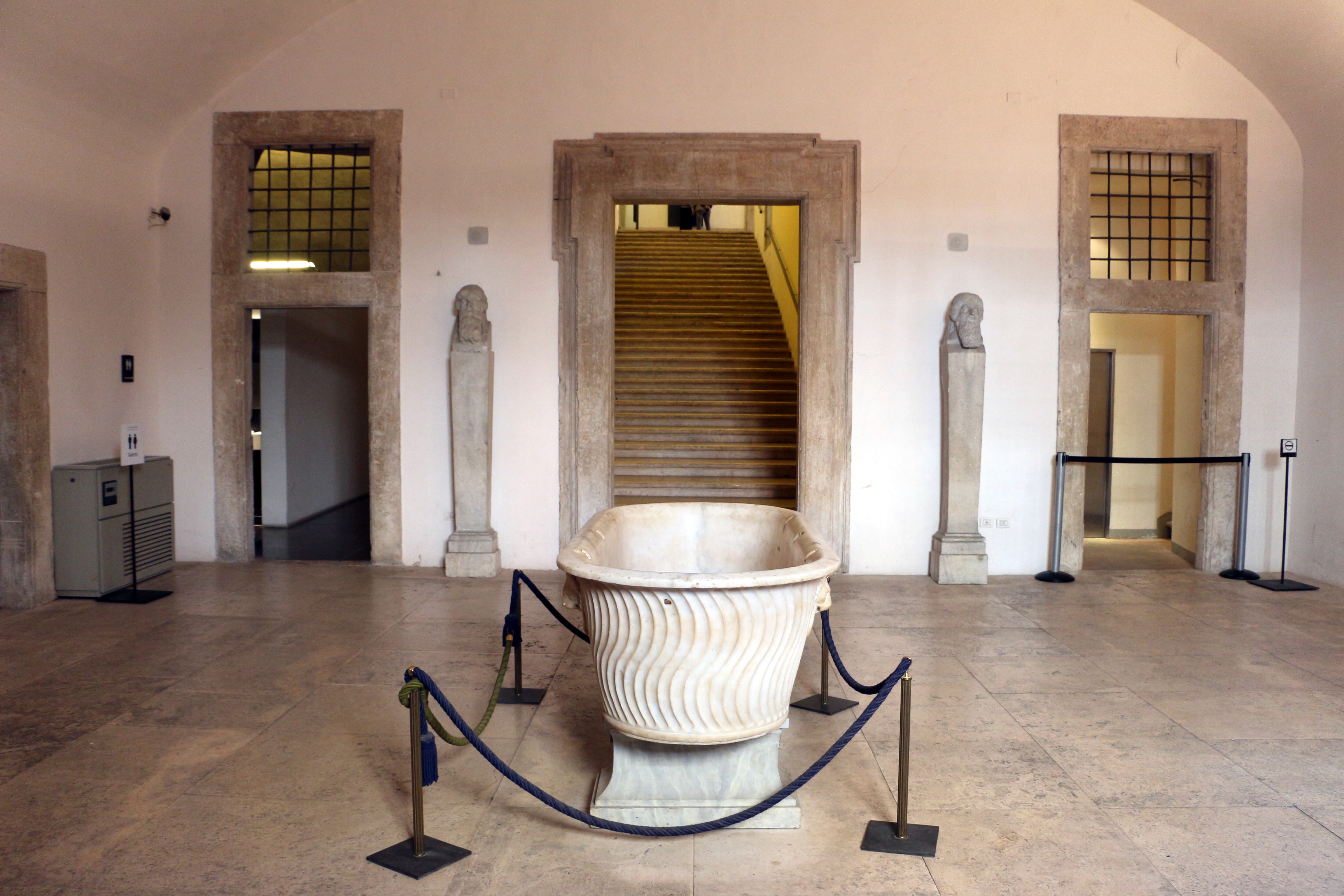 Palazzo Barberini (Rome)